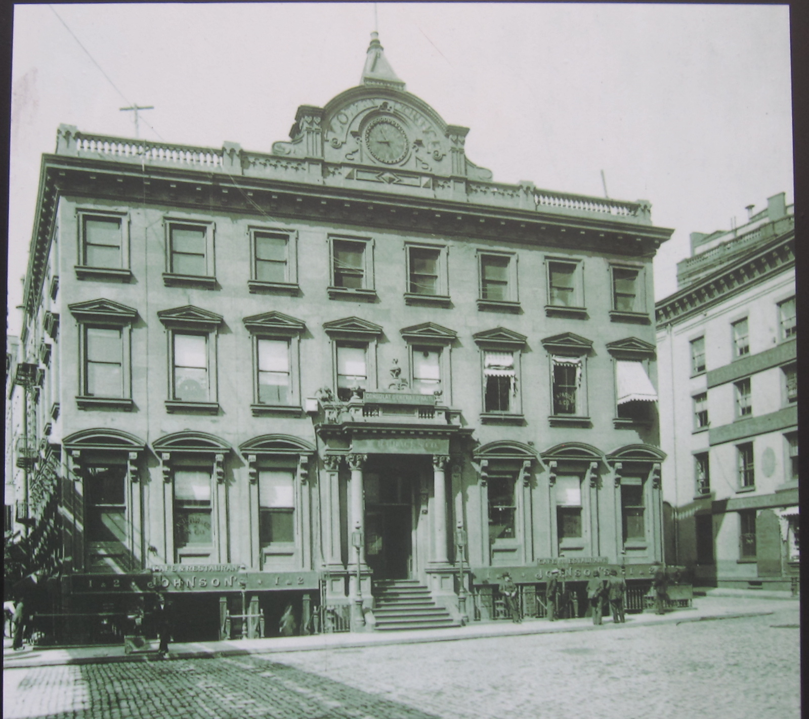 1 Hanover Square, also known as India House.